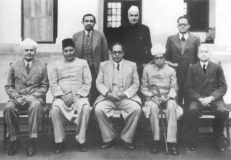 Chairman and members of the drafting committee of the Indian Constitution. (Sitting from left) N. Madhava Rao, Syed Muhammad Saadulla, Dr. B. R. Ambedkar (Chairman), Alladi Krishnaswamy Iyer, Sir Benegal Narsing Rao. (Standing from left) S. N. Mukherjee, Jugal Kishor Khanna and Kewal Krishnan. (29 August 1947)